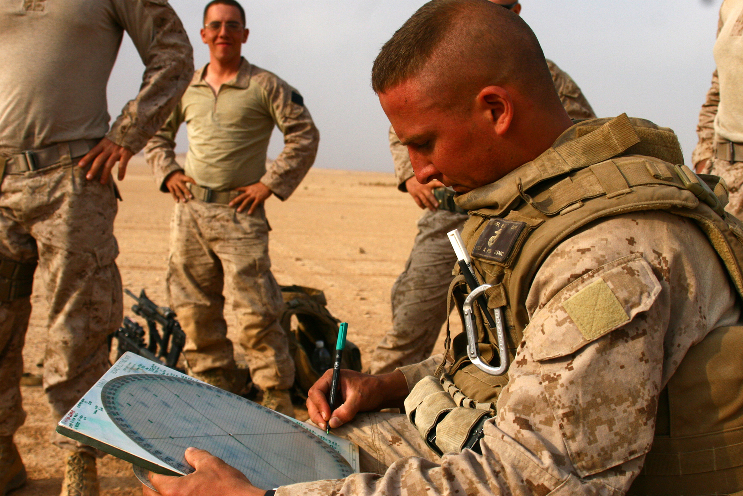 Lance Cpl. Bryan Becherini, a mortarman with Fox Co., 2nd Battalion, 25th Marine Regiment, 3rd Marine Aircraft Wing (Forward) plots the direction and elevation before firing on the Shadow Range Oct. 21.